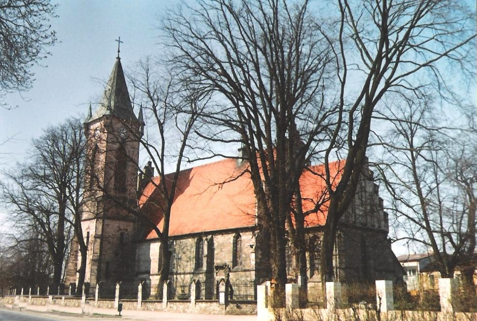 Saint Nicholas church in Końskie, Poland